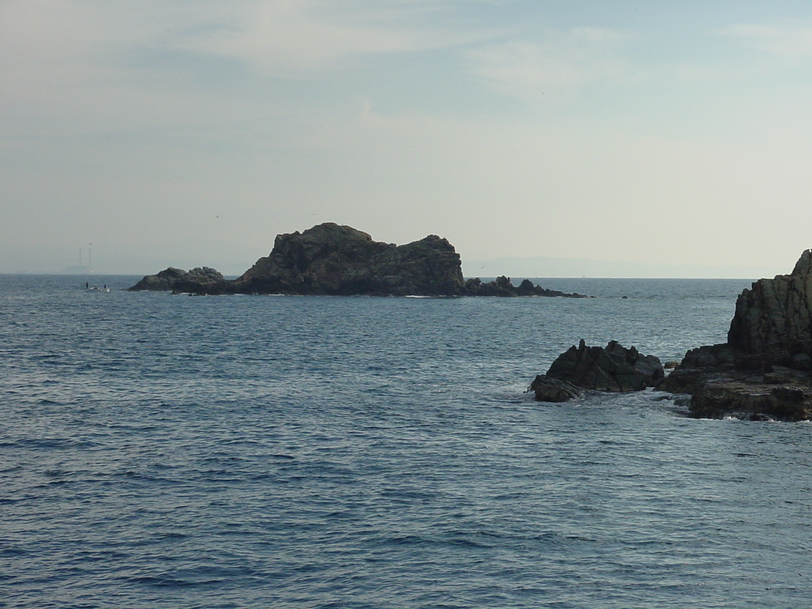 Palmaiola island, the rock at the north of the island, Italy